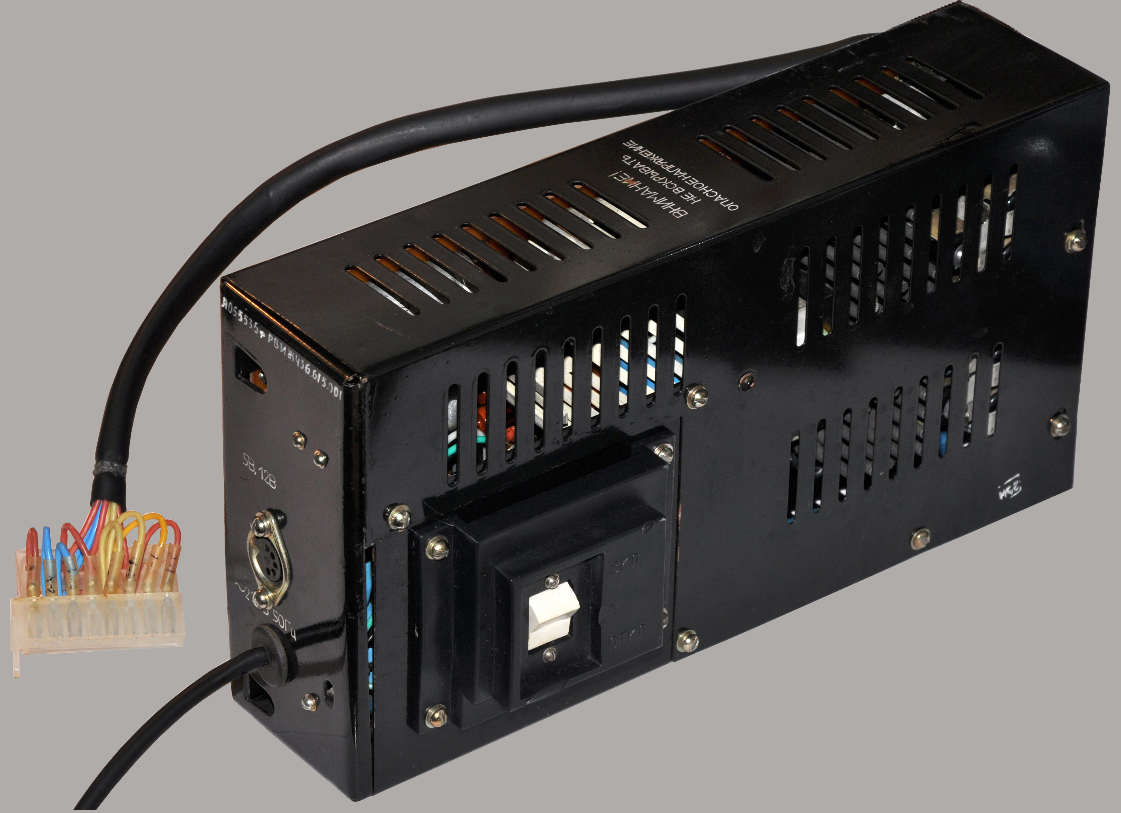 Agat-9 computer power (ZEMZ)